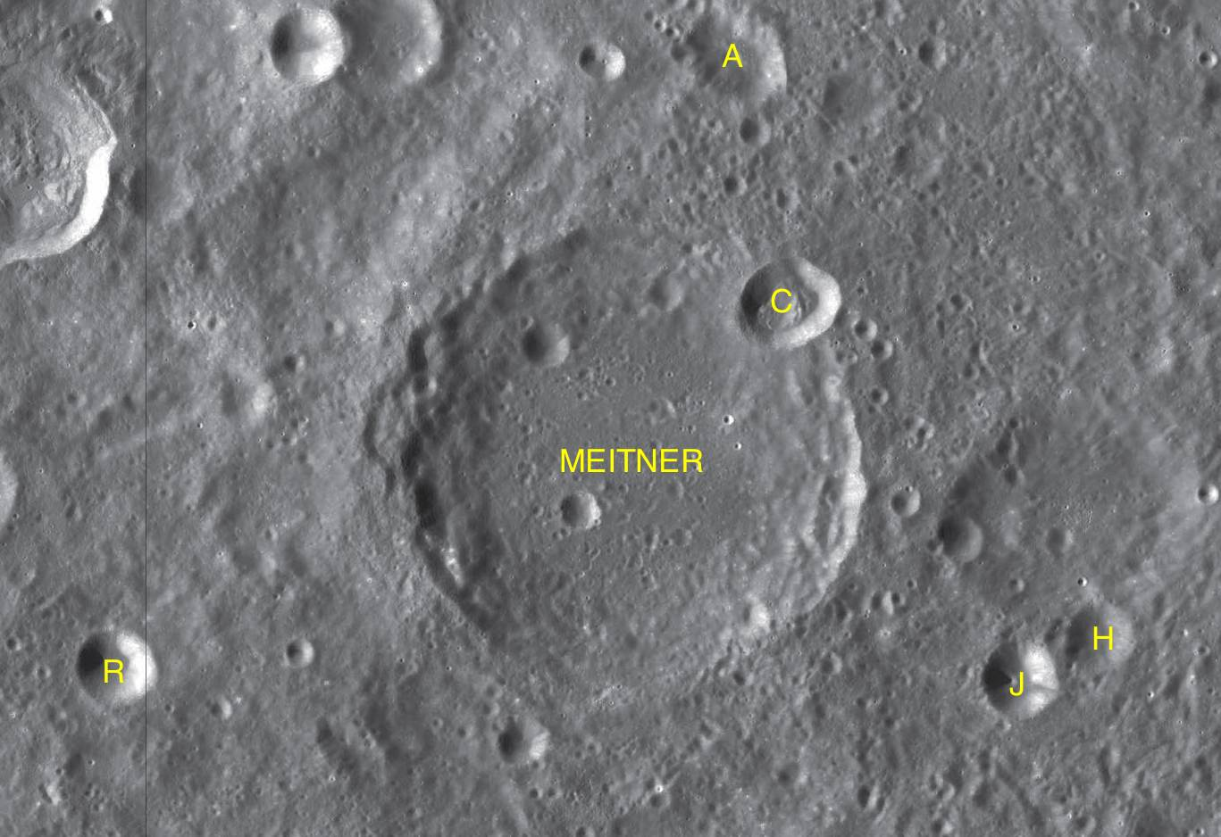 Parts of the charts LAC-82, LAC-83 used for the presentation